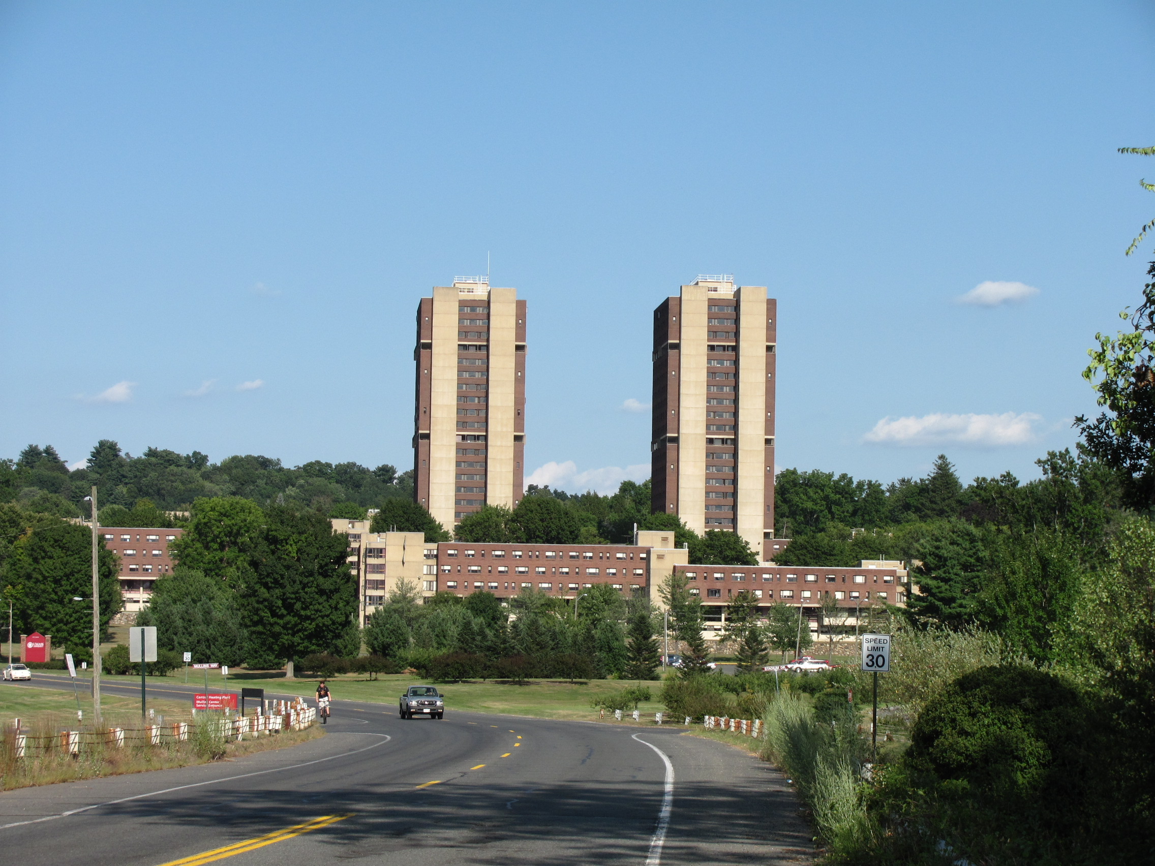 Coolidge Hall and Kennedy Hall, UMass Amherst, Amherst Massachusetts